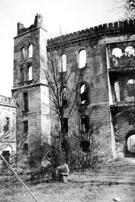 The ruins of the old palace in Świerklaniec. It was build in the 19th century in the Tudor Style and burned down in 1945. The ruins were pulled down in 1961.